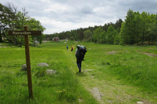 Björnö, a peninsula east from Ingarö, Värmdö municipaity, Stockholm county